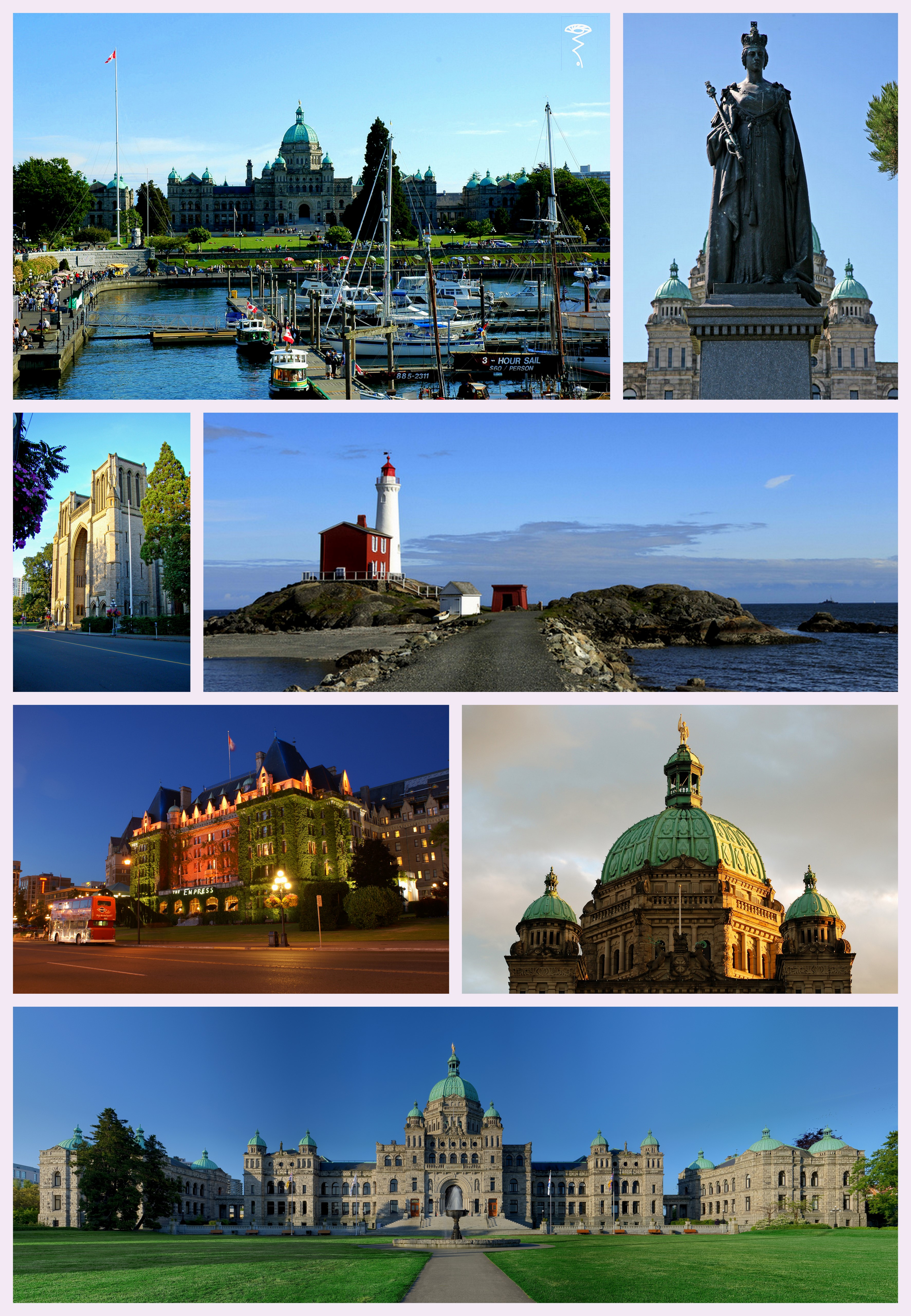 Clockwise from top left: The Inner Victoria Harbour , Statue of Queen Victoria, the Fisgard Lighthouse, Neo-Baroque architecture of the British Columbia Parliament Buildings, The British Columbia Parliament Buildings, The Empress Hotel, and The Christ Church Cathedral.